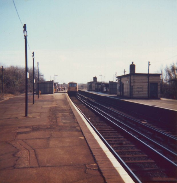 Old Polegate Railway Station, East Sussex This rather dilapidated station closed within a few years of the photo being taken when a new station was built west to be beside the level crossing in the High Street. Ironically, the first station was in fact in the same position as the present, before the station in the photo was built, so to call the above 'old' is slightly misleading, if that makes sense! The platform to the far left served trains for the Cuckoo Line to Tunbridge Wells.